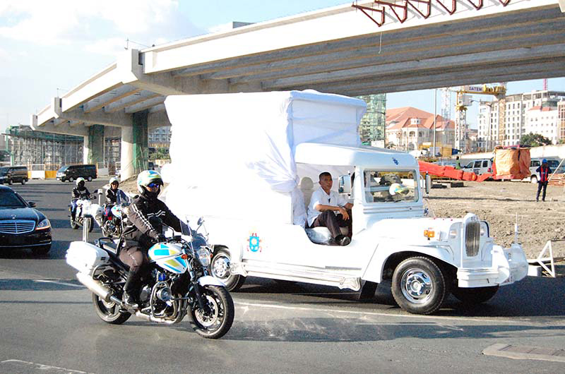 Dry Run of the Papal Visit 2015 near the Villamor Airbase. Simulation of the Papal Convoy.